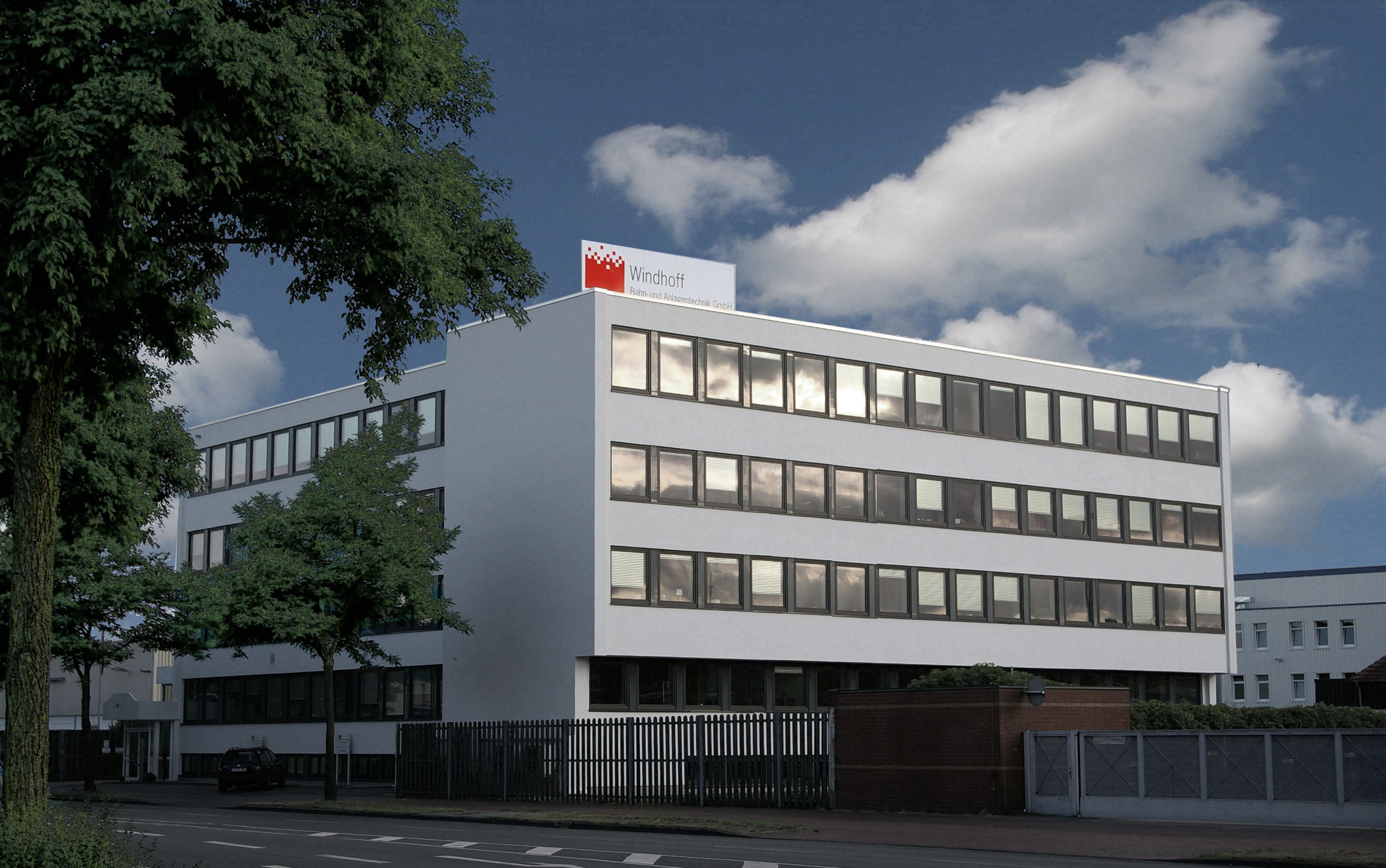 Headquarter of Windhoff Bahn- und Anlagentechnik GmbH, Rheine, Germany